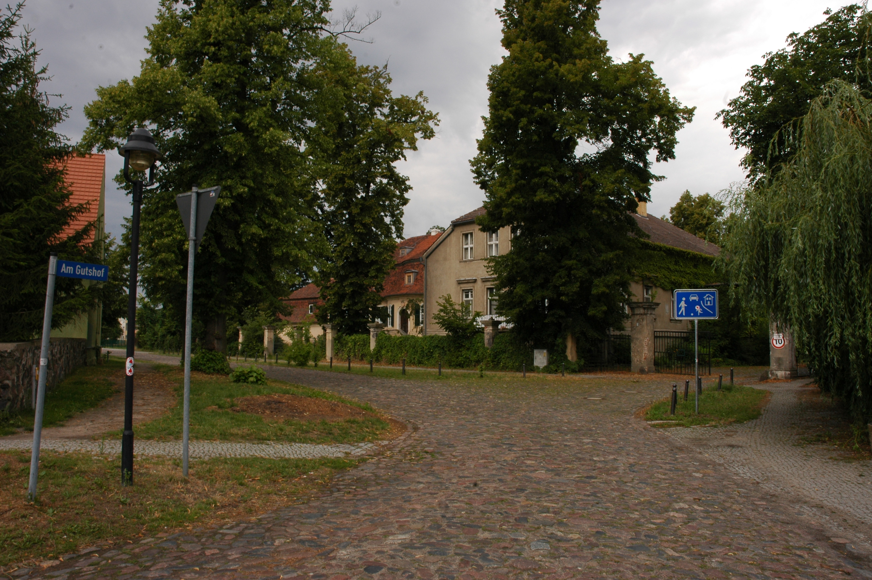 House where the families Seip and Hjort were interred during WW2